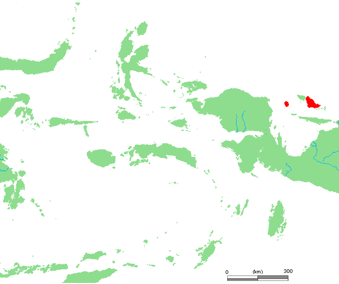 Global distribution of Long-tailed Starling Aplonis magna